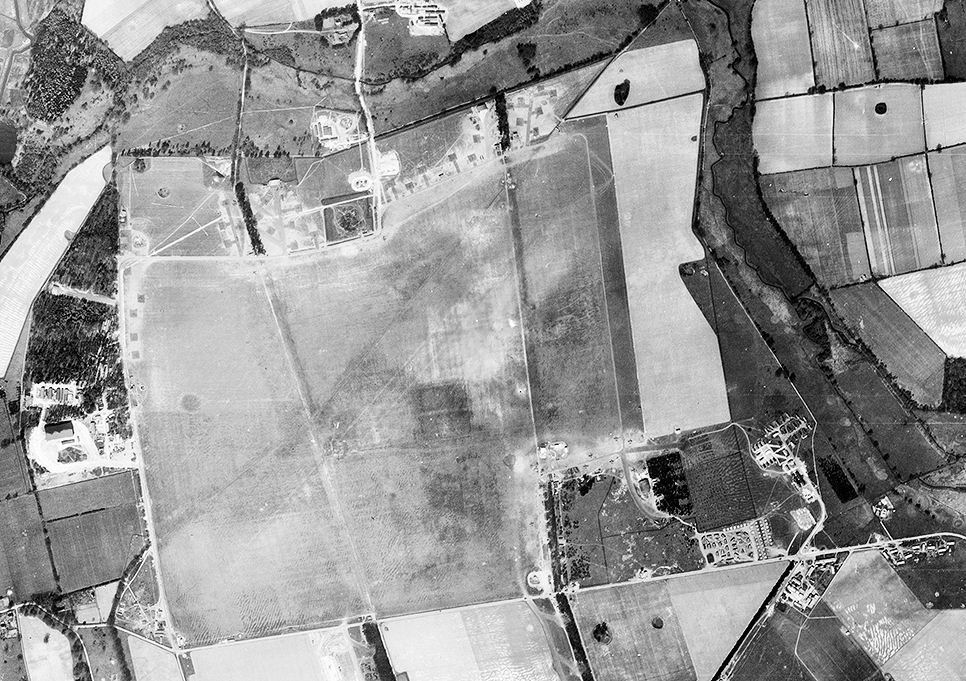 Aerial photograph of Bodney airfield, looking north, 18 April 1944. Photograph taken by 7th Photographic Reconnaissance Group, sortie number US/7PH/GP/LOC276. English Heritage (USAAF Photography).